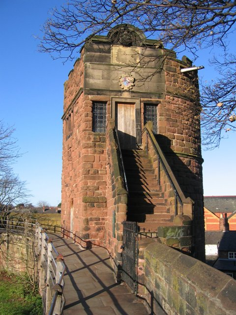 The Phoenix Tower on the city walls. The Phoenix Tower, at the north east corner of the city walls, is no longer open to visitors due to structural problems. More commonly known as the King Charles Tower it is stated that the king watched from here in 1645 as his army was defeated at Rowton Moor. For the carvings at the top of the tower, above the steps, see 631562.